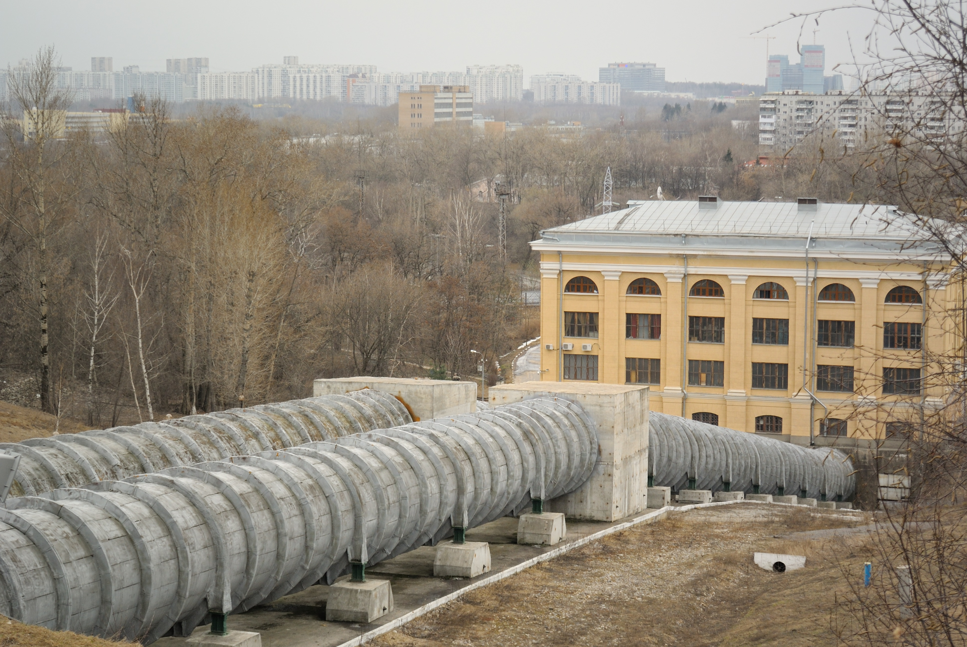 Moscow-Volga canal Hydroelectric power plants in Russia